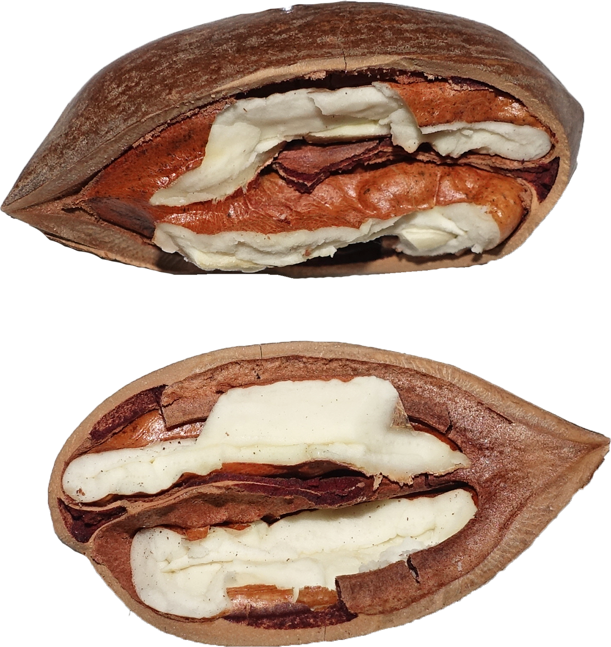 Pecan nut (Carya illinoinensis) split into two pieces.